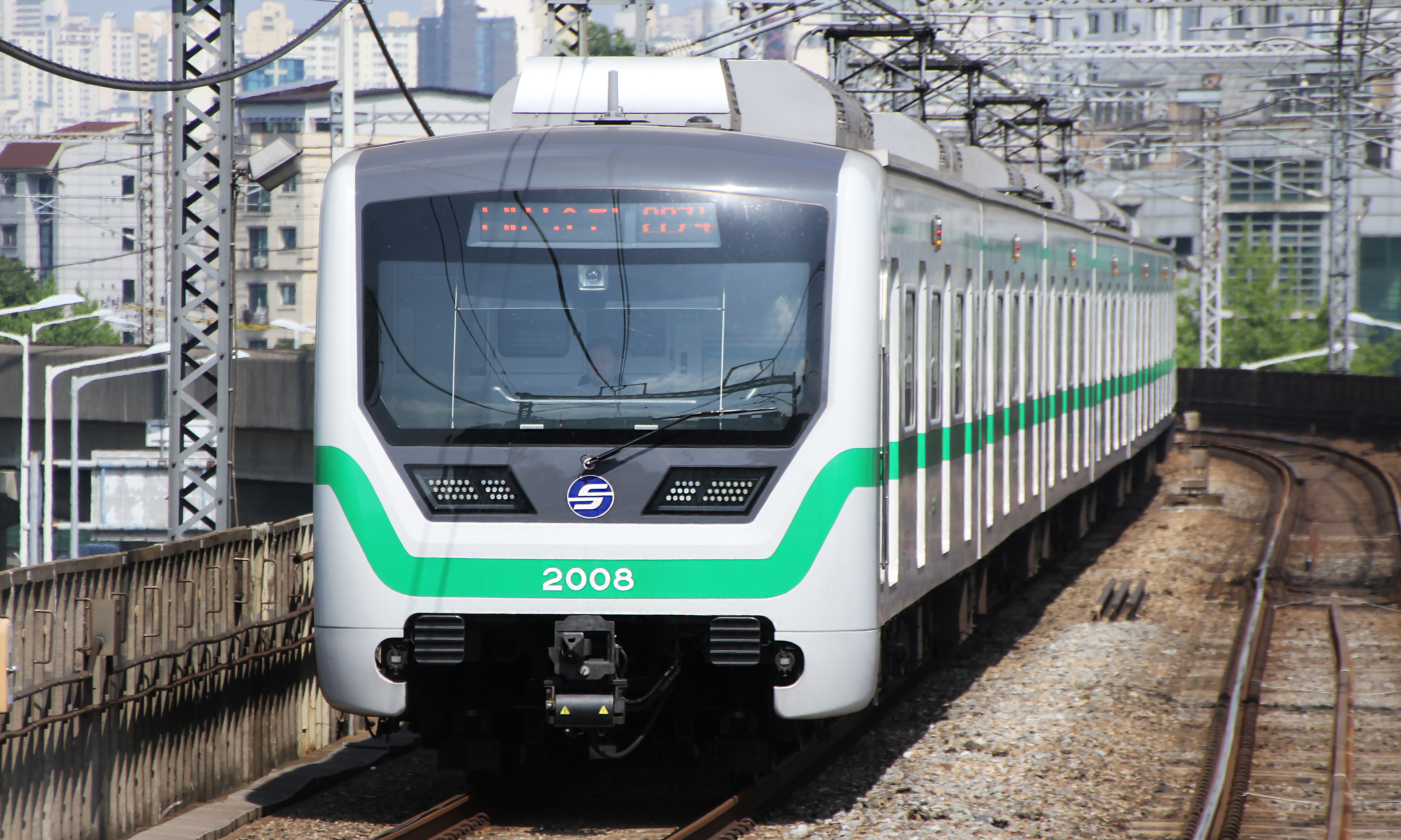 Seoul Metro Line 2 train of Seoul Metro 2000-series cars (4th generation) arriving at Guro Digital Complex.